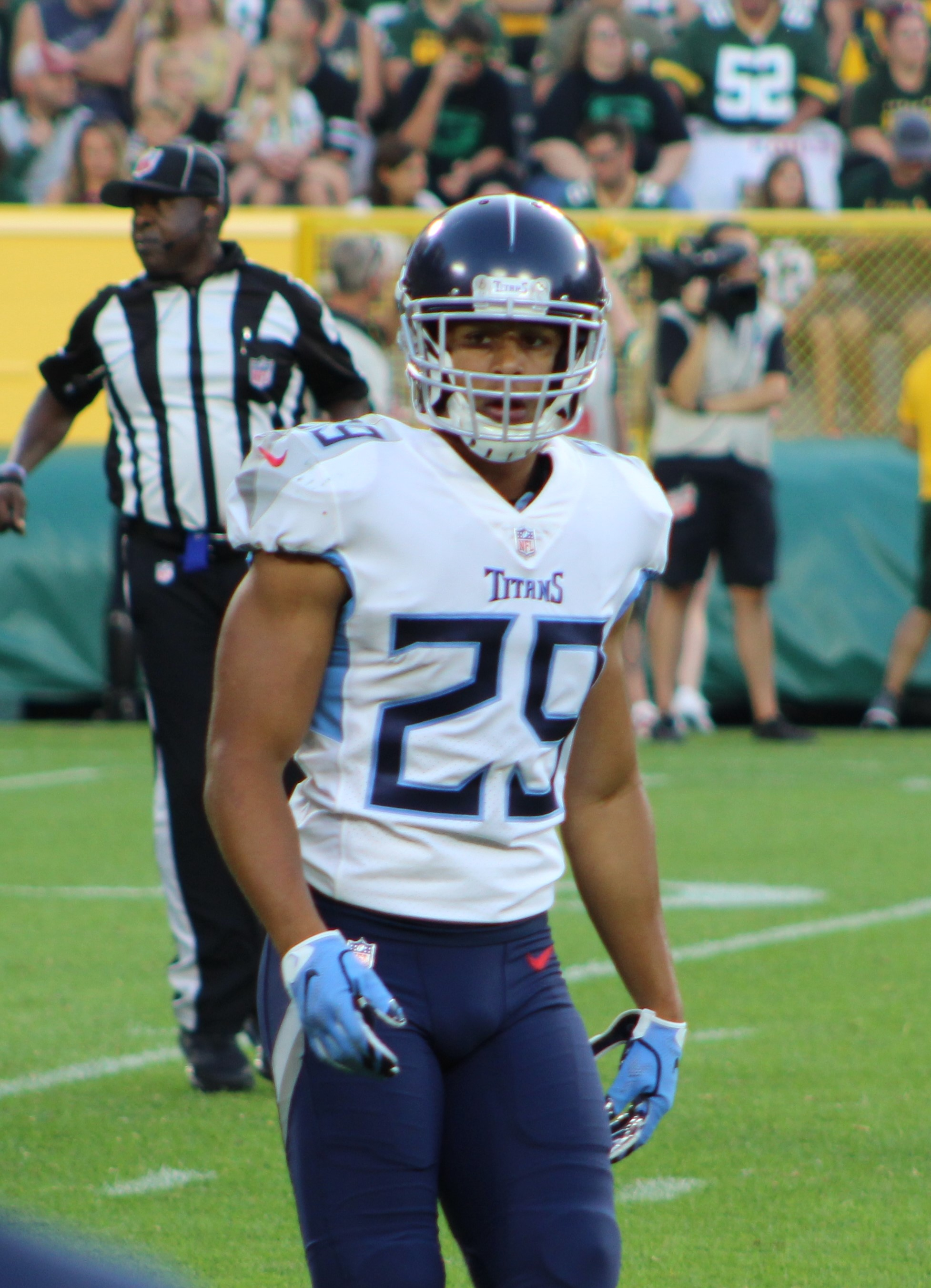 Dane Cruikshank, Tennessee Titans at Green Bay Packers (Preseason), August 9, 2018